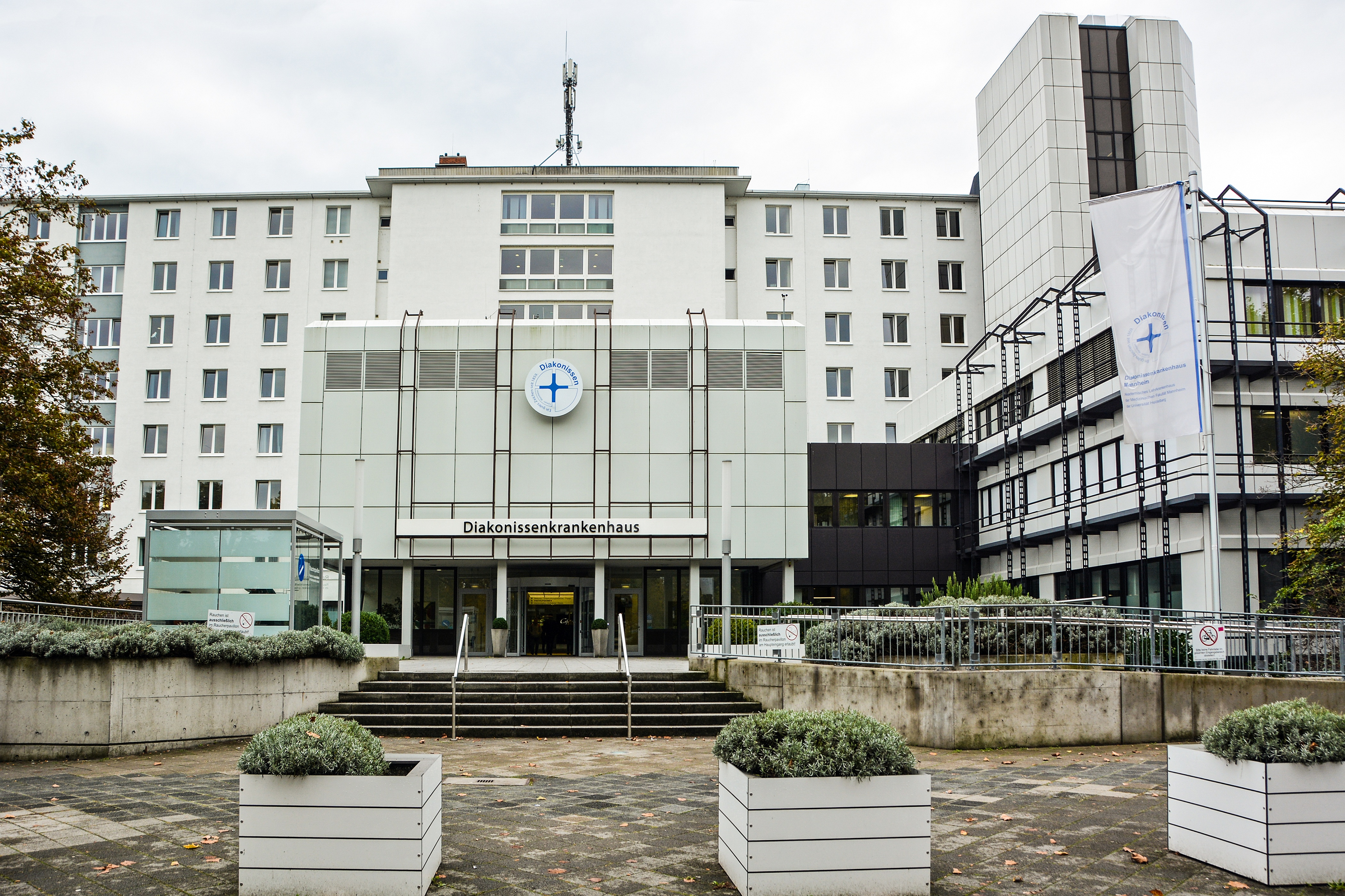 Diakonissen Hospital (Diakonissenkrankenhaus), Mannheim (Germany), entrance